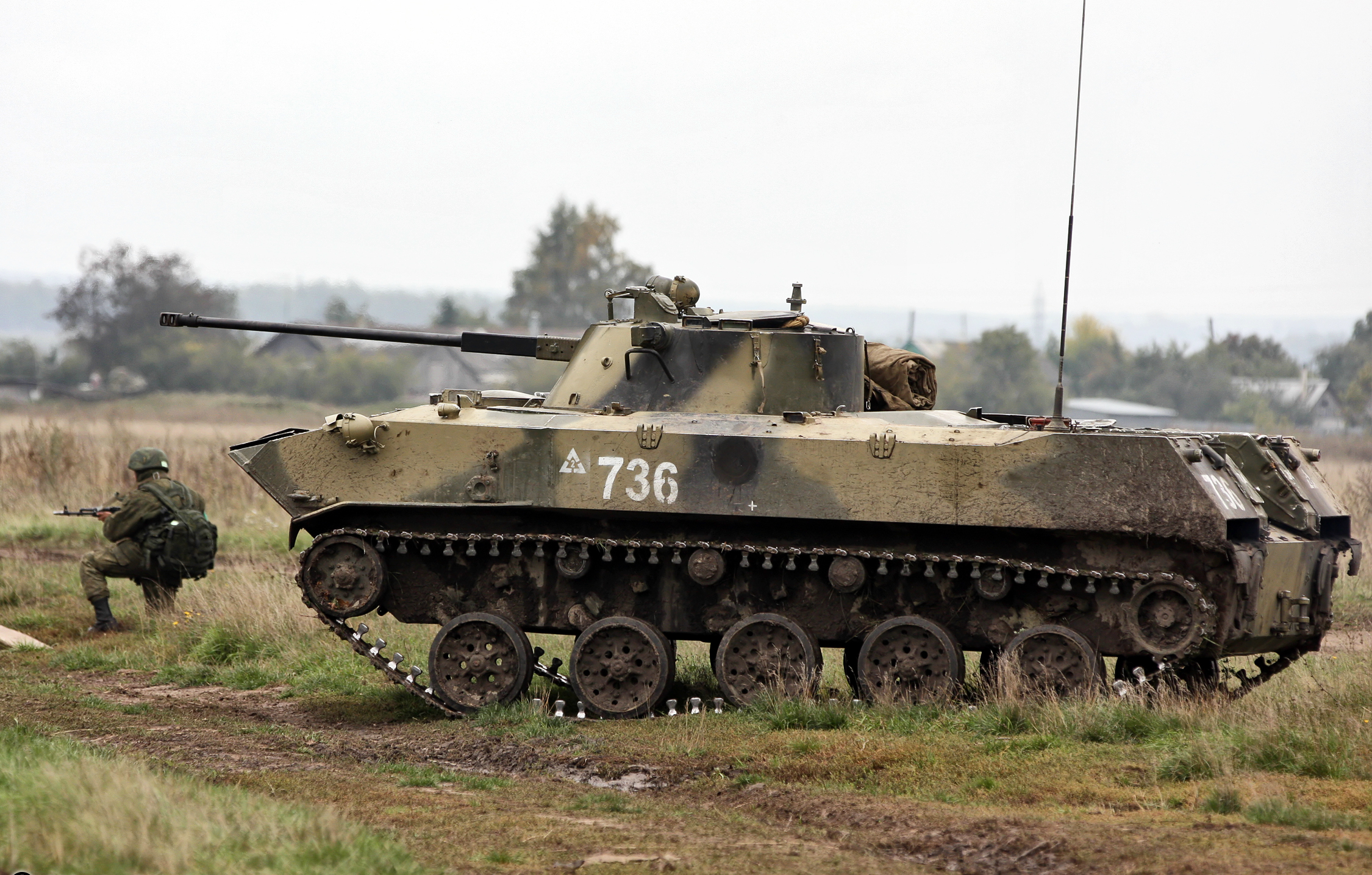 Tactical exercises of 137th Guards Airborne Order of the Red Star Regiment 106th Guards Airborne Division